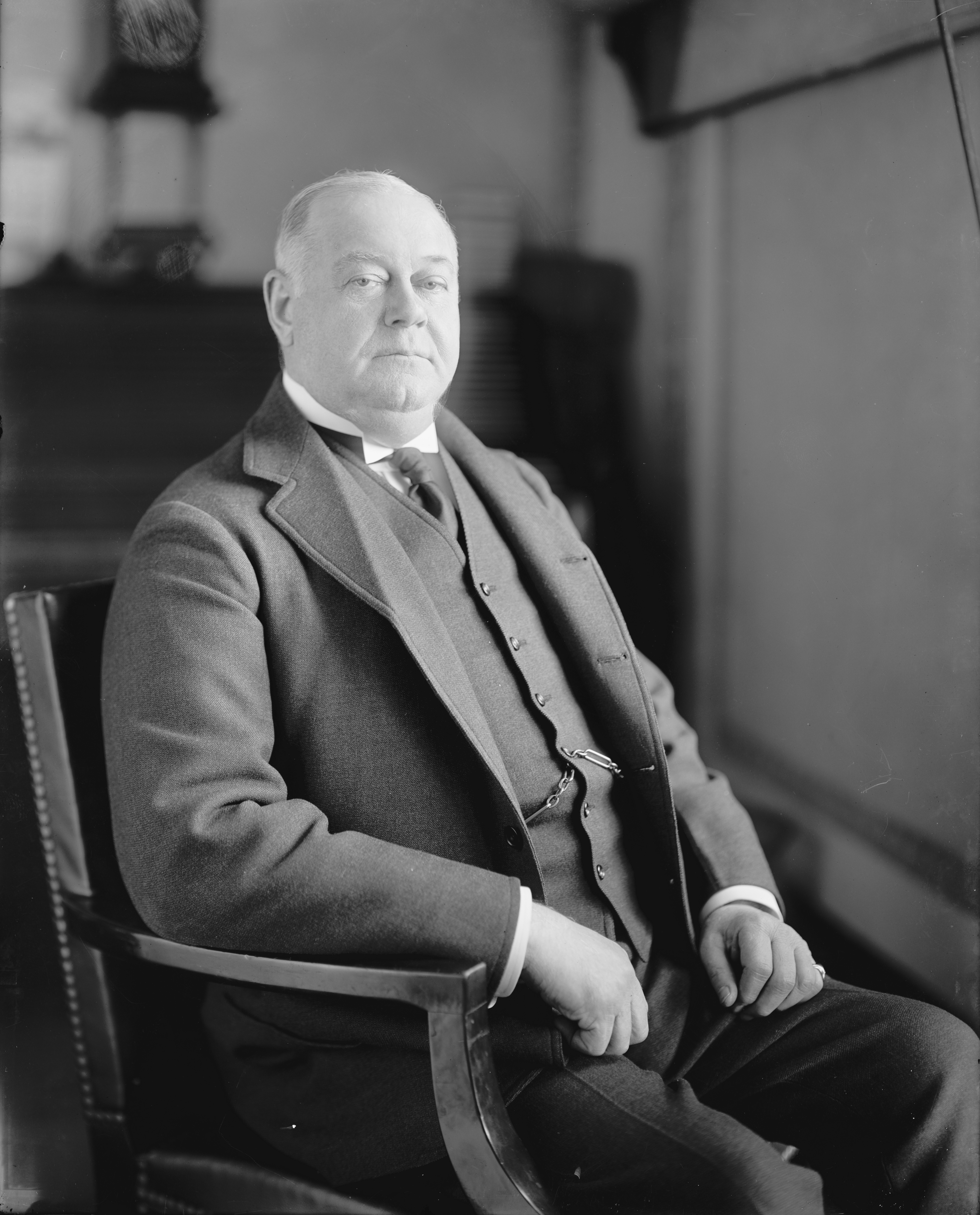 Photoportrait of Senator George P. Wetmore of Rhode Island.